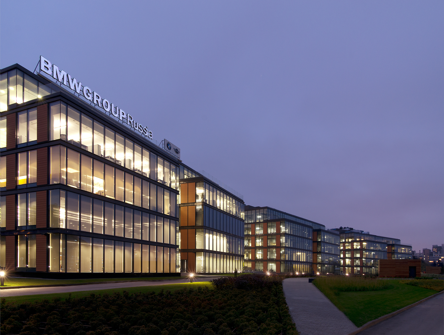 Olympia Park, Moscow